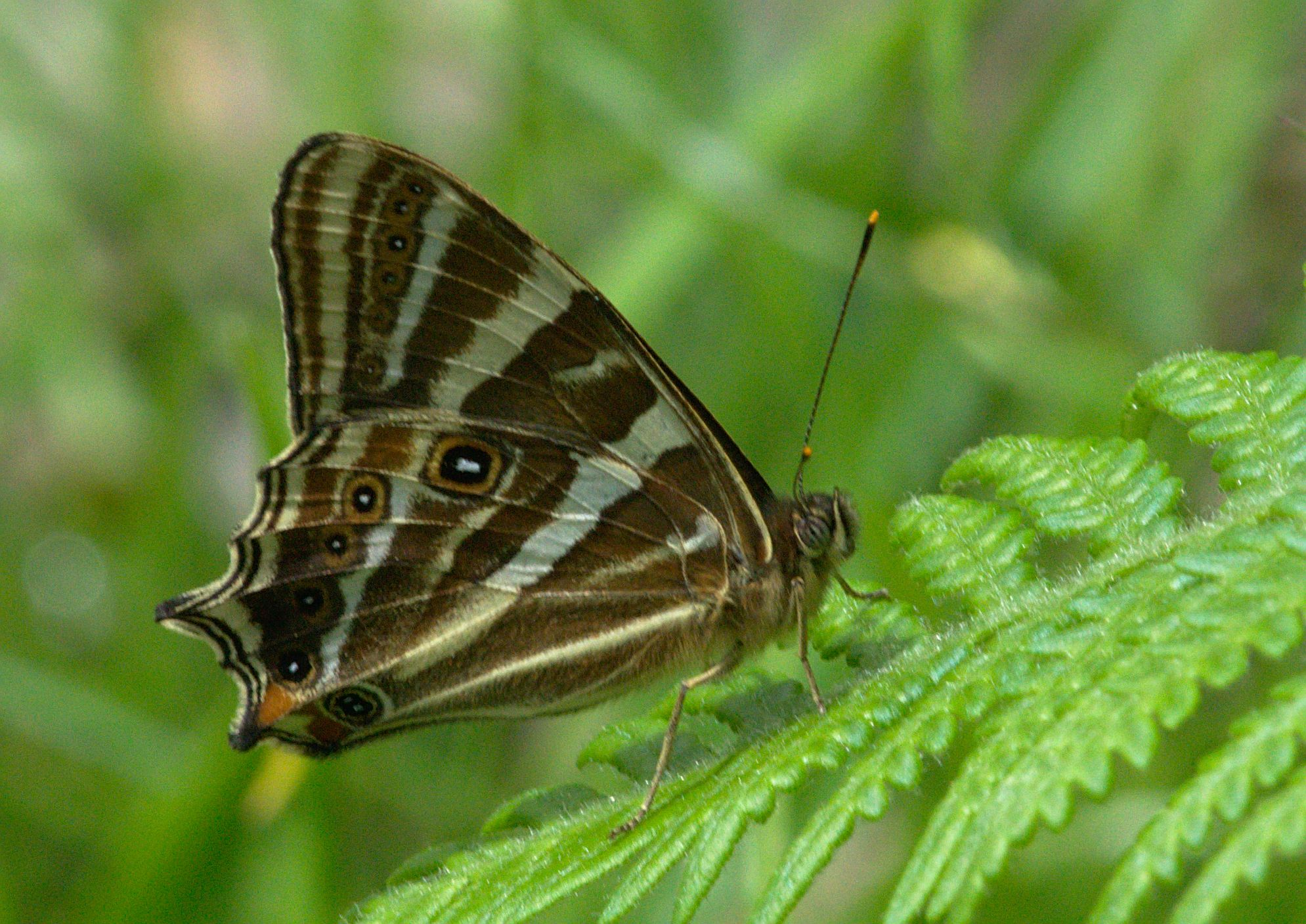 Butterfly basking on a fern